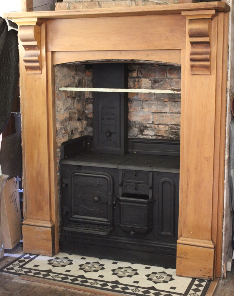 Coal Range, Shacklock Orion, No 1, Left Hand (LH)